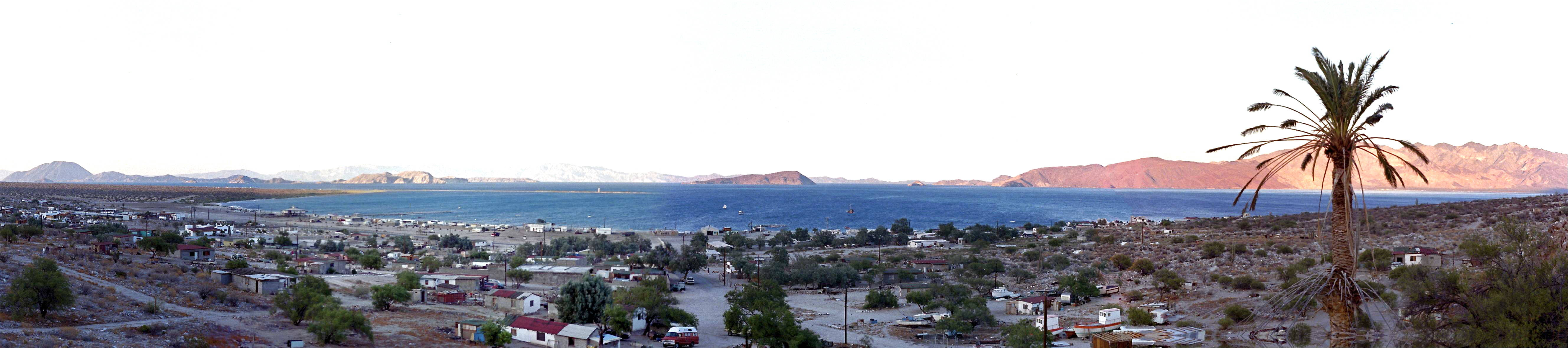 View of the bay with Isla Angel de la Guarda on the horizon as seen from the foothills above Bahia de Los Angeles, Baja California, Mexico.